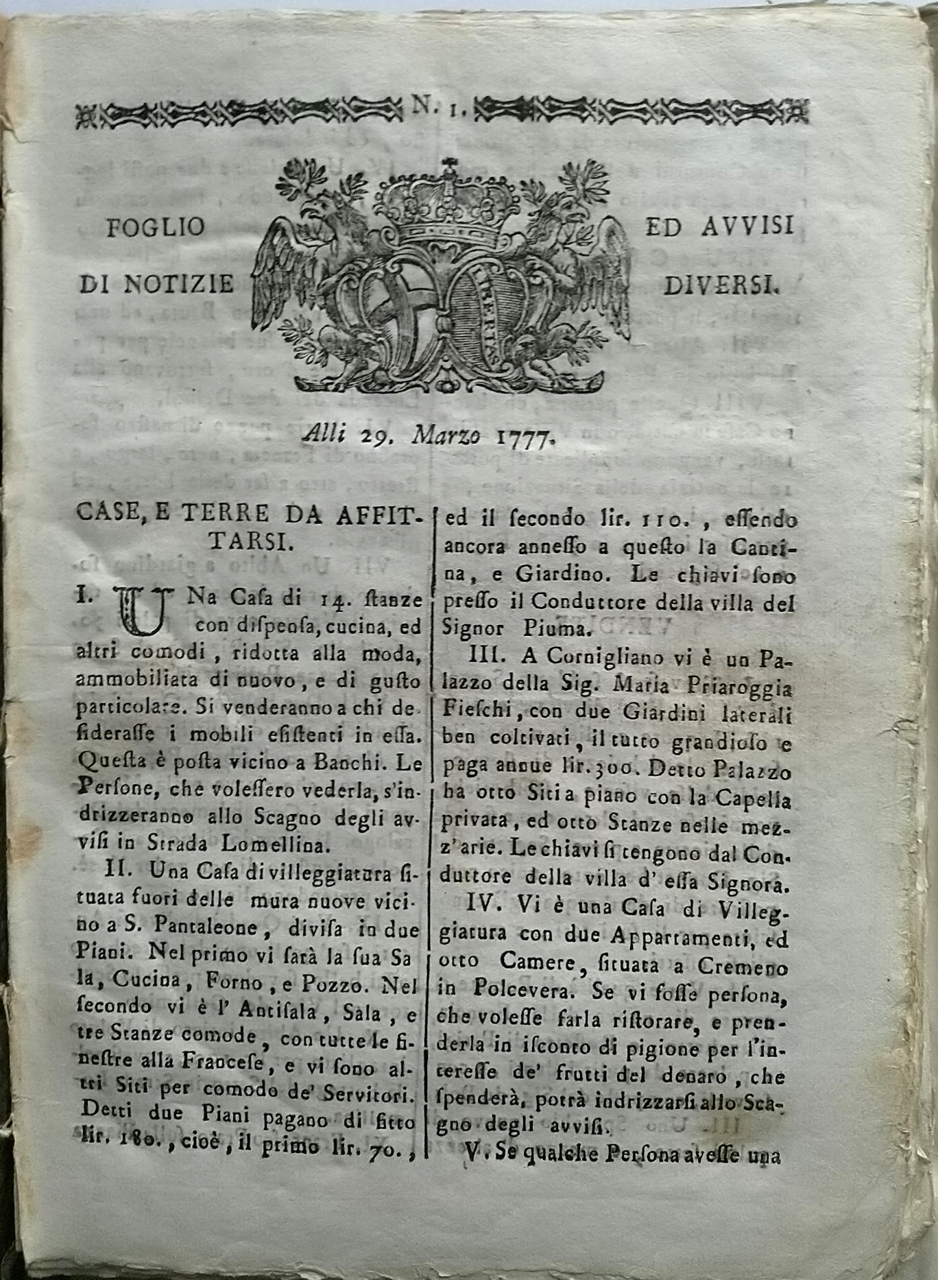 Italian newspaper published in Genoa from 1777 to 1797. The first five issues were titled: Foglio di notizie ed avvisi diversi. Issue 1 dated 29 March 1777